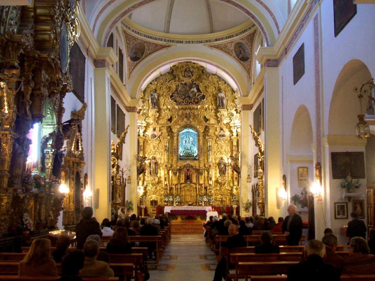 Iglesia del Carmen, Écija